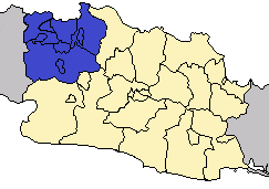 Jabodetabek within Western Java